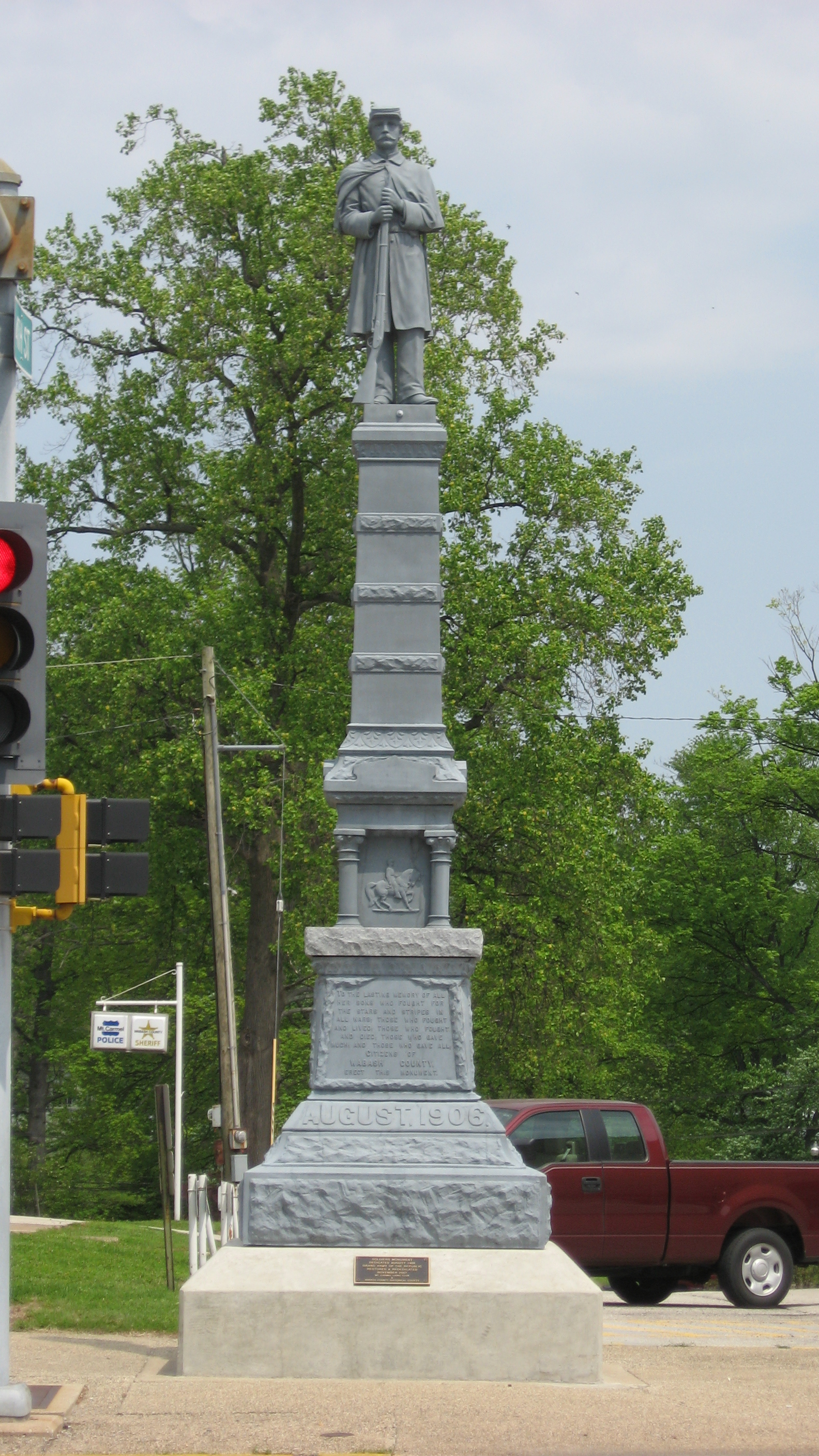 Front of the GAR memorial statue on the northeastern corner of the junction of Market and Fourth Streets in downtown Mount Carmel, Illinois, United States, and built in 1906.